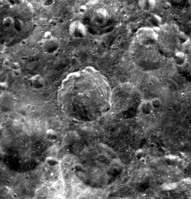 Blazhko crater (Clementine image)